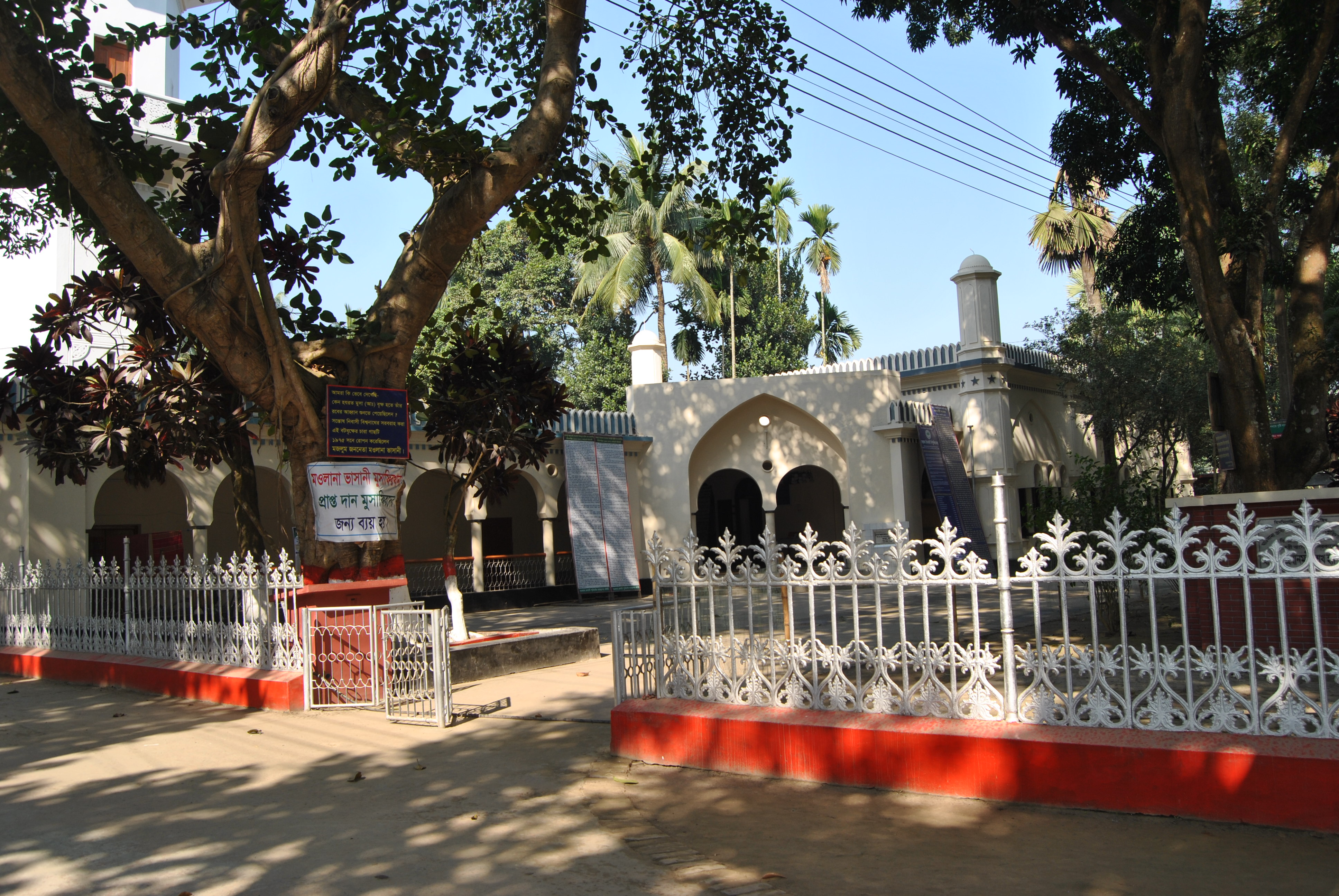 Shrine of Maulana Abdul Hamid Khan Bhasani